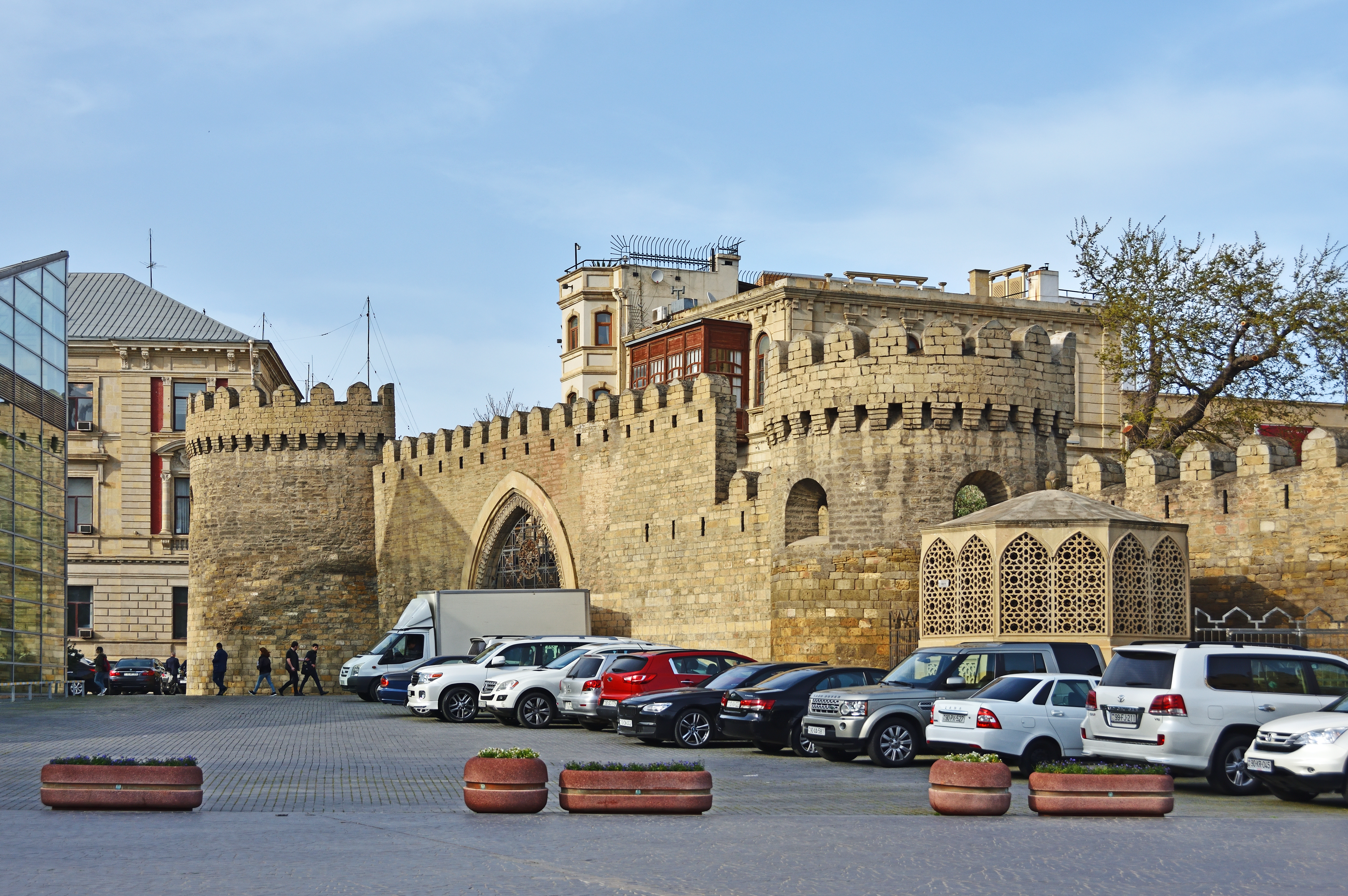 Baku Fortress Wall, Azerbaijan